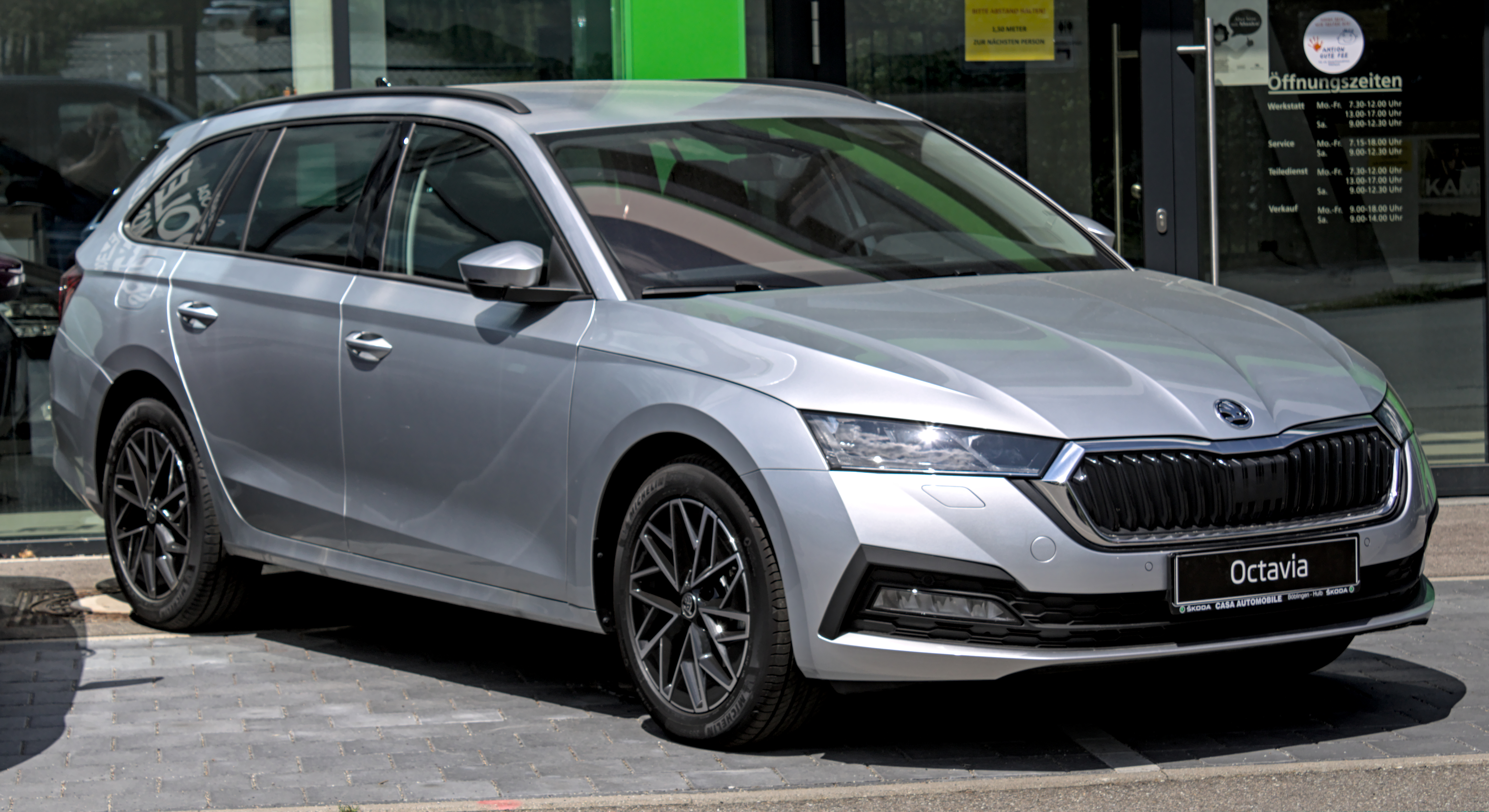 Skoda_Octavia_IV_Combi in Böblingen